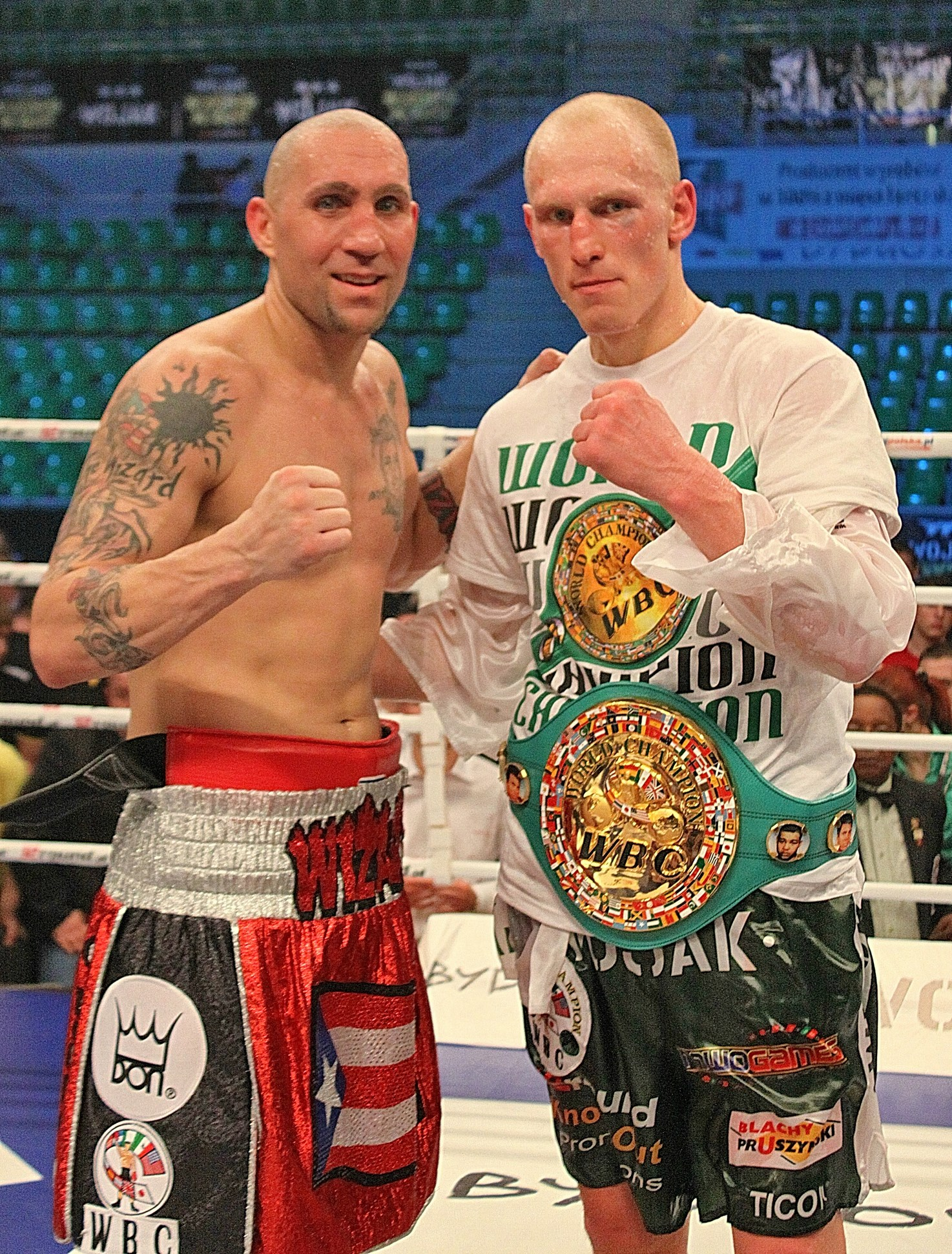 K Wlodarczyk & F Palacios after the fight in Bydgoszcz (2011).